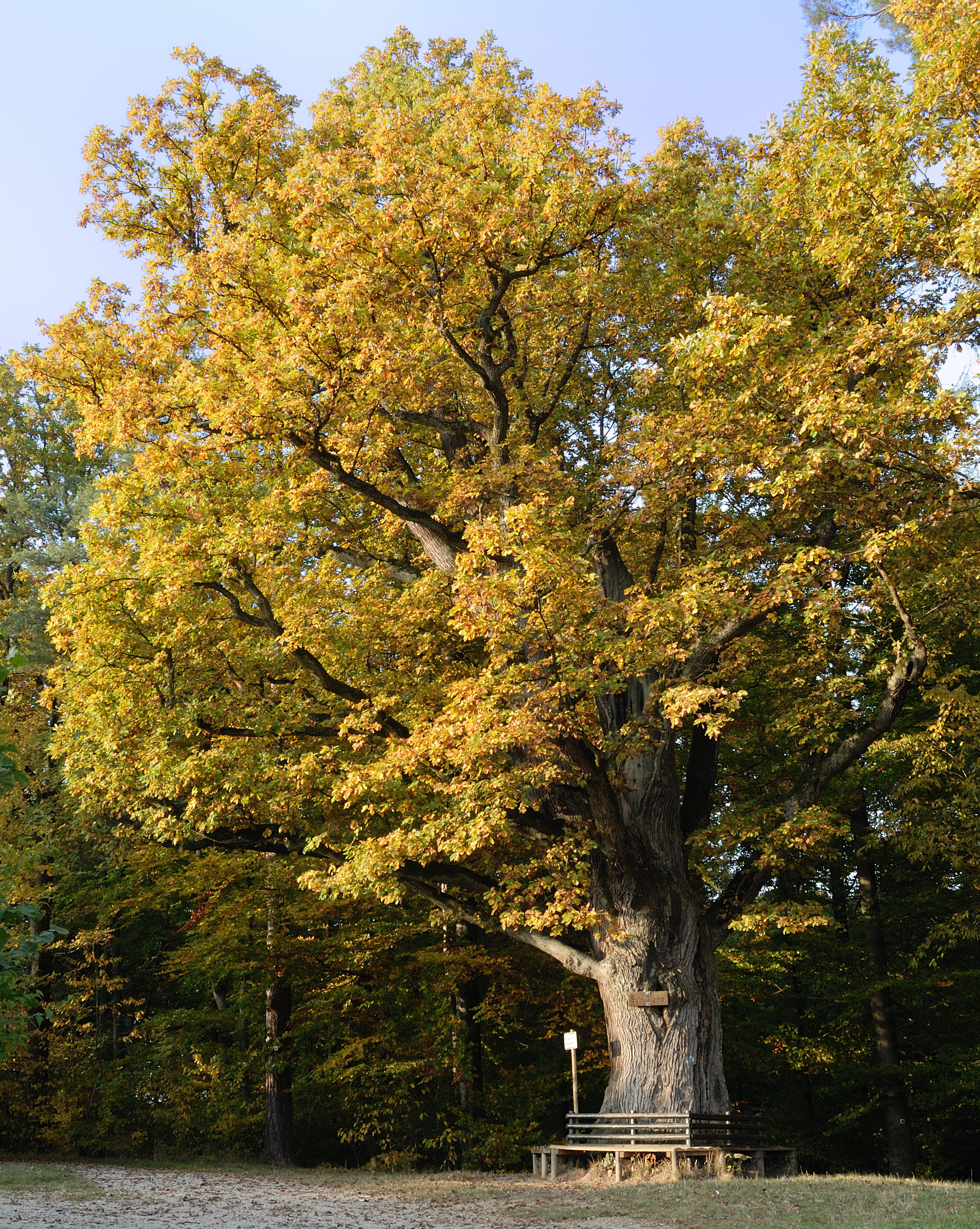 Bühleiche in Plochingen-Stumpenhof. Presumably it was planted in 1648 after the Peace of Westphalia.